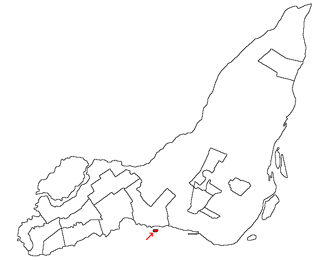 Map of L'Île-Dorval on the Isle of Montreal